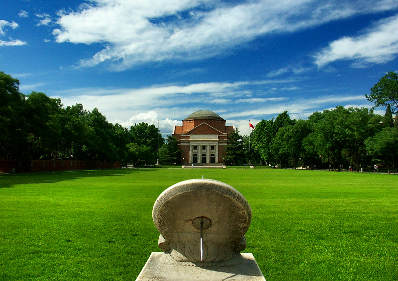 The Tsinghua University campus in Beijing, China.